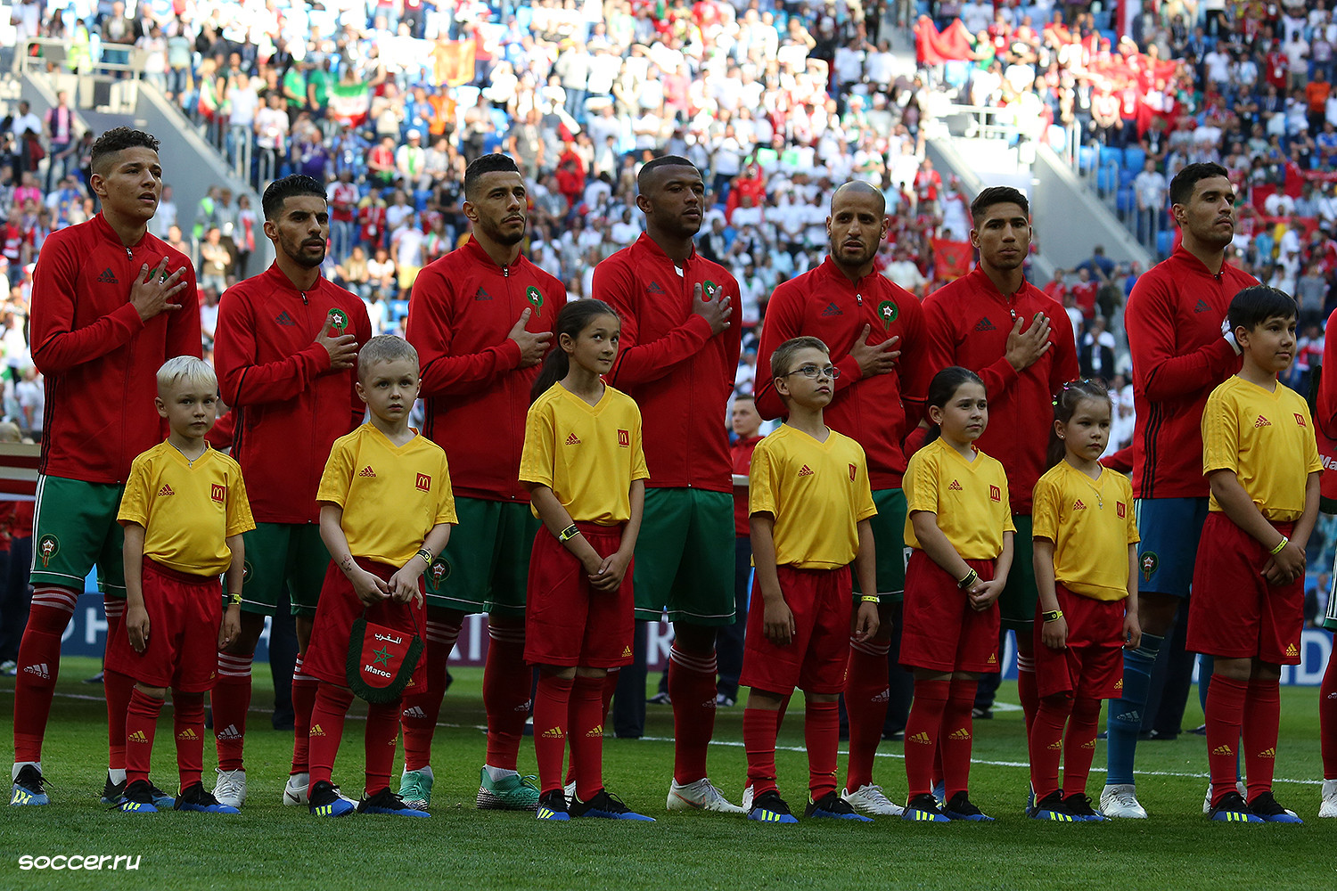 Iran-Morocco match, 2018 FIFA World Cup